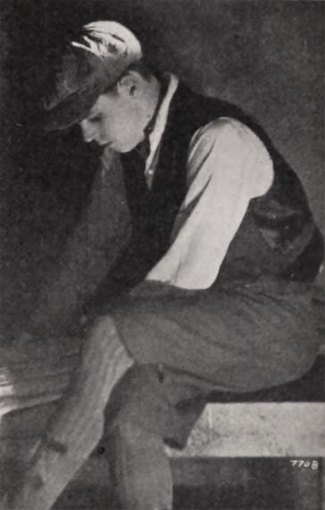 Still from the American comedy film Molly O (1921) with Albert Hackett, on page 52 of the November 5, 1921 Exhibitors Herald.